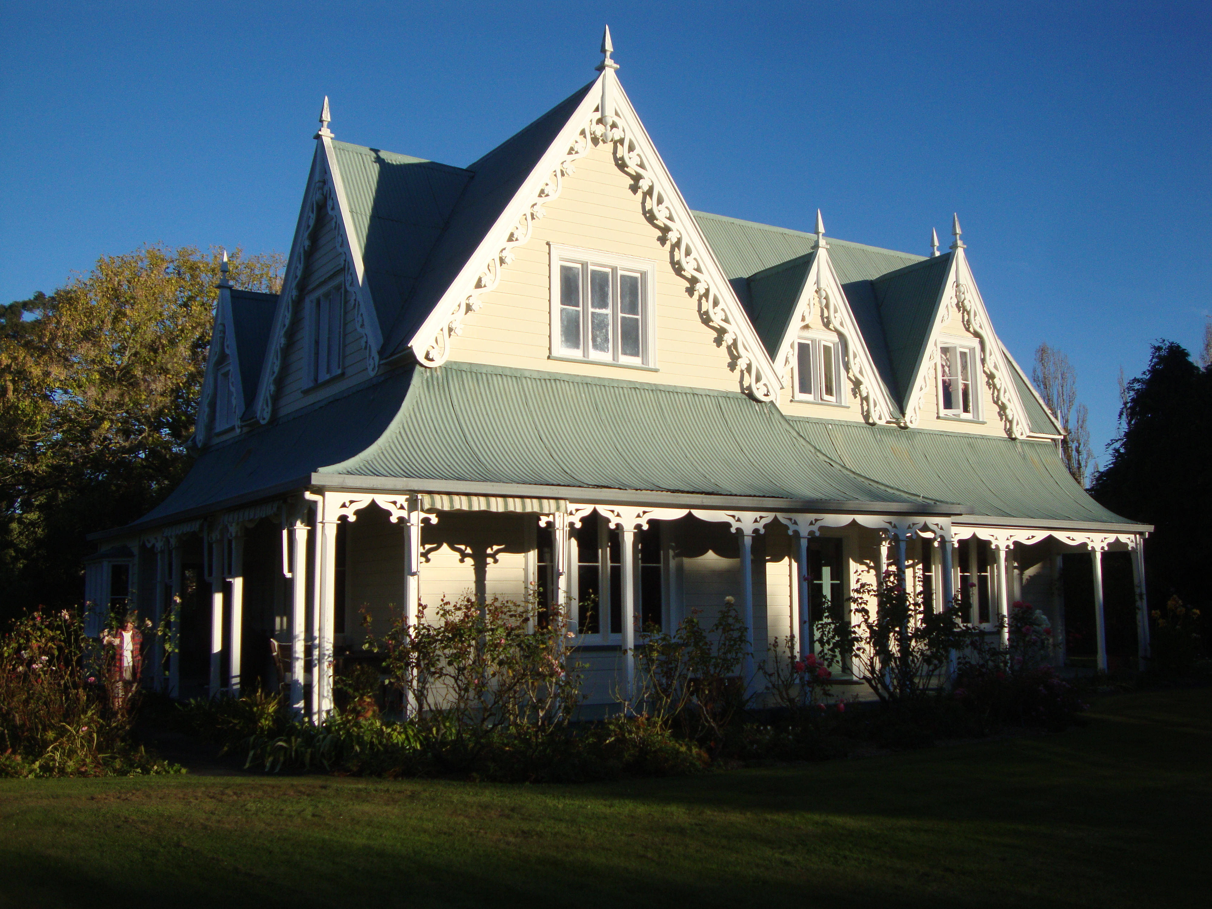 Stafford Place in 2012.